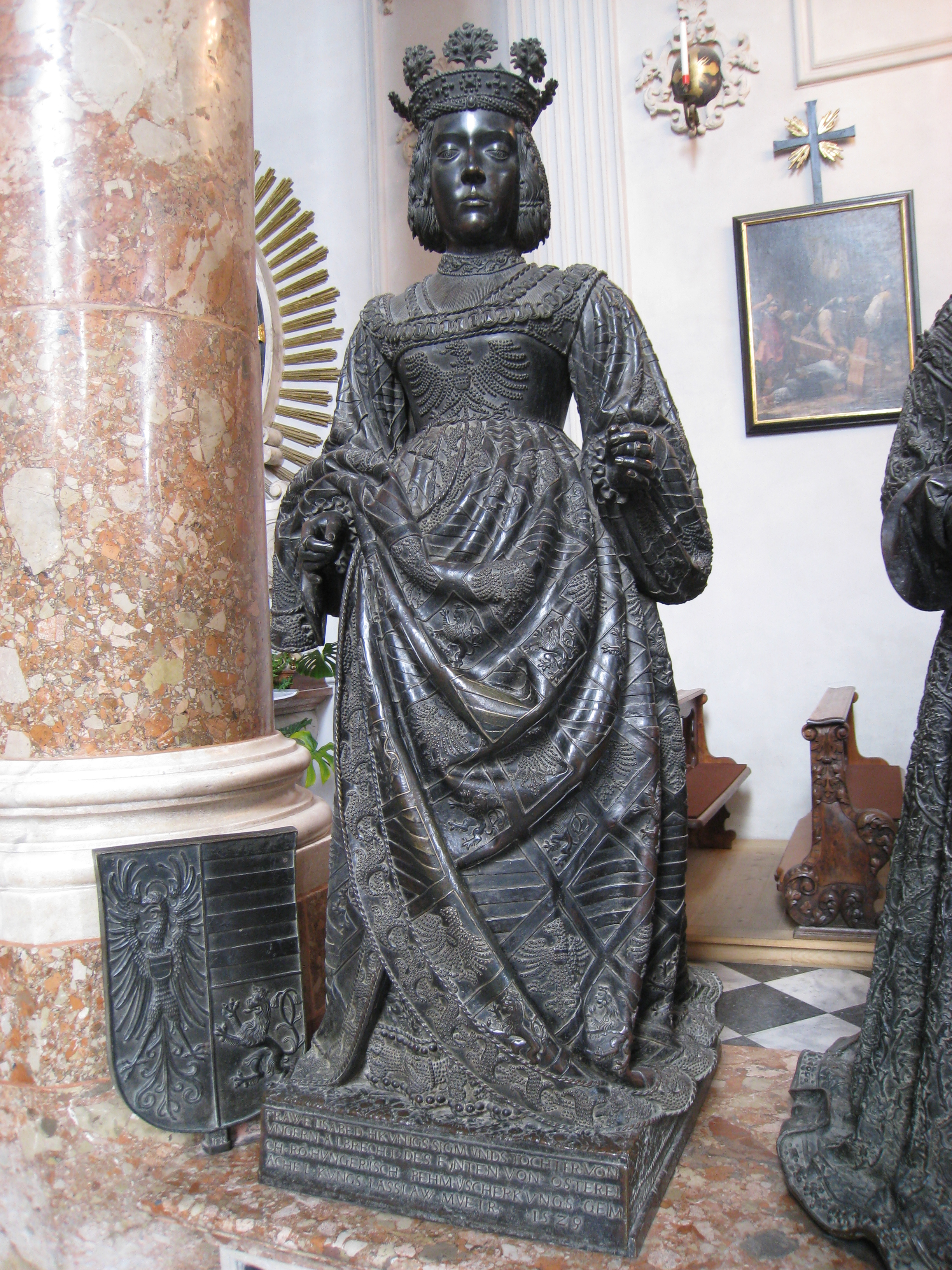 Statue within Hofkirche, Innsbruck, Austria. This statue is old enough so that it is not covered by any copyright.